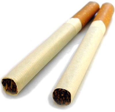 2 Cigarette of the east-german brand f6